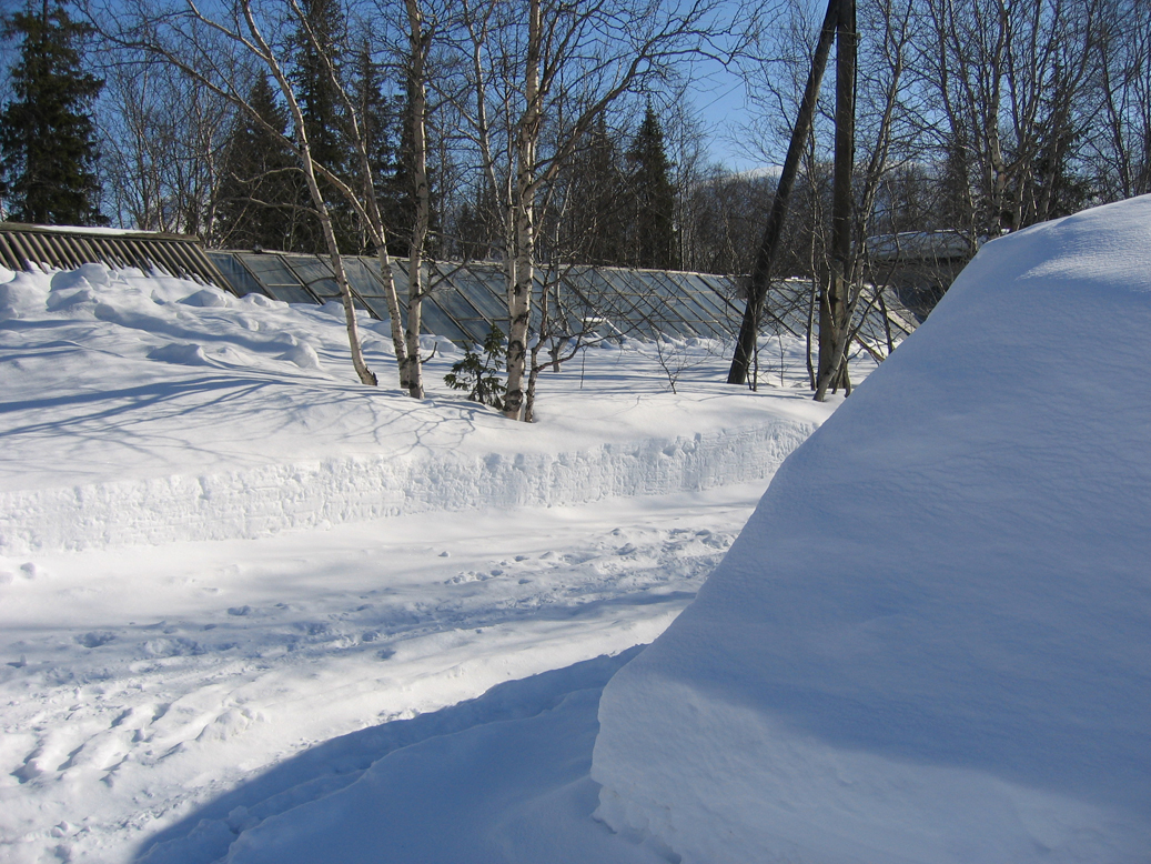 Greenhouse of the botanical Garden in Kirovsk